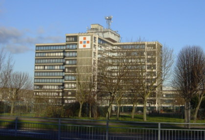 National Girobank (Alliance and Leicester) HQ. This is the well known landmark of "The Girobank" now the Alliance and Leicester HQ, taken from Netherton Way.